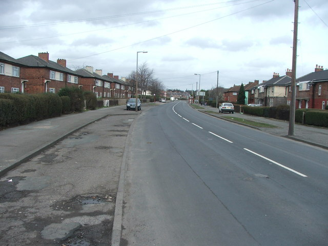 Halton Moor Ave. Halton Moor, Leeds. Looking NE.